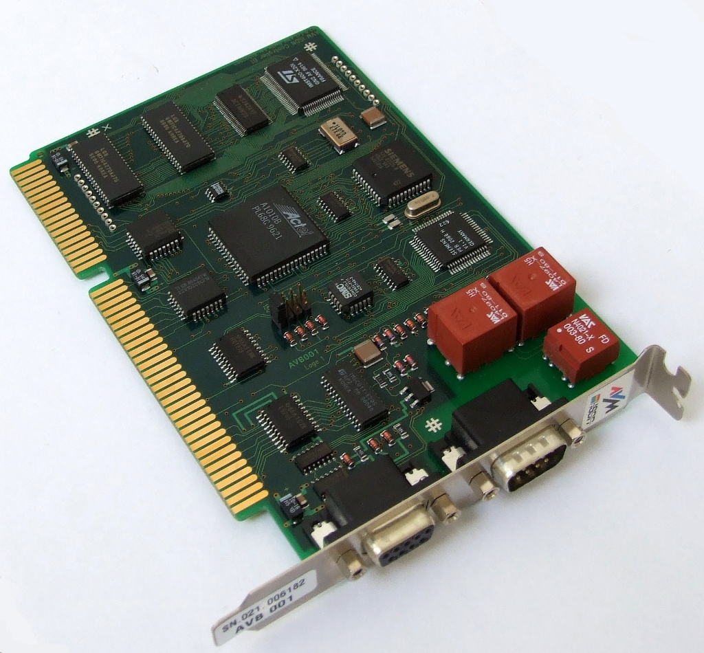 AVM ISDN controller B1 V2.0 for ISA.